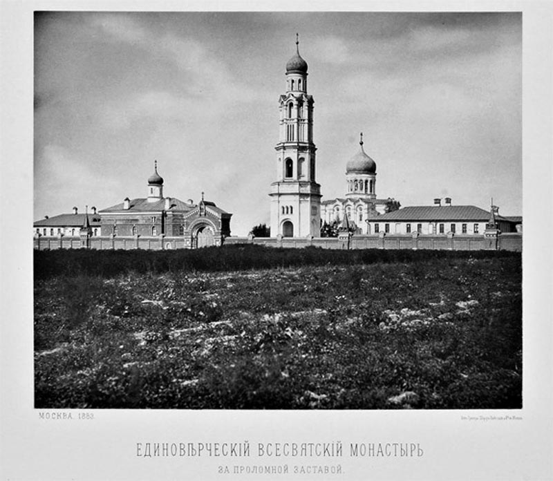 Plate 70: Vsehsvyatsky monastery, Moscow.